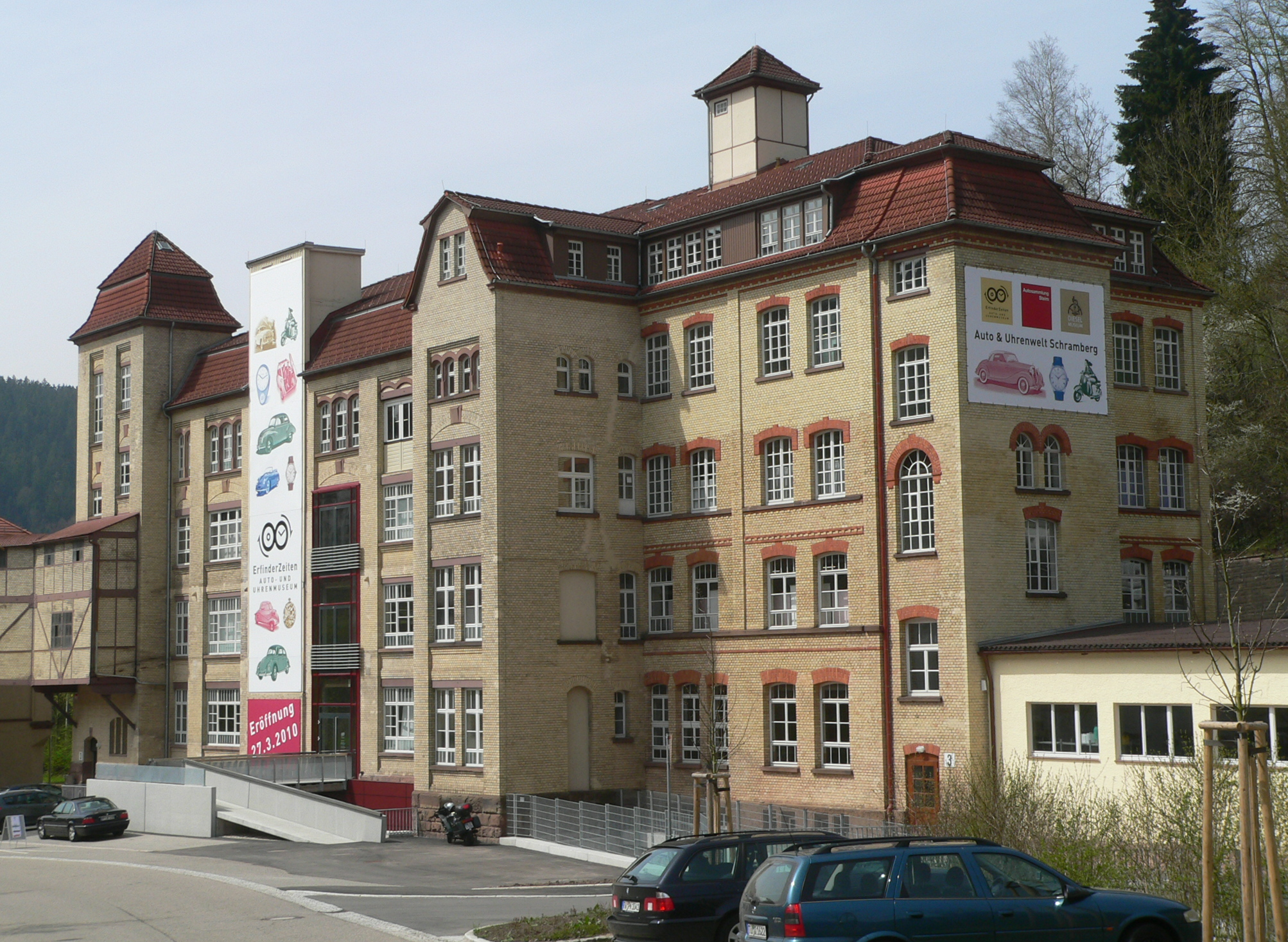 Auto & Uhrenwelt Schramberg (museum for cars and clocks) in Schramberg, Germany